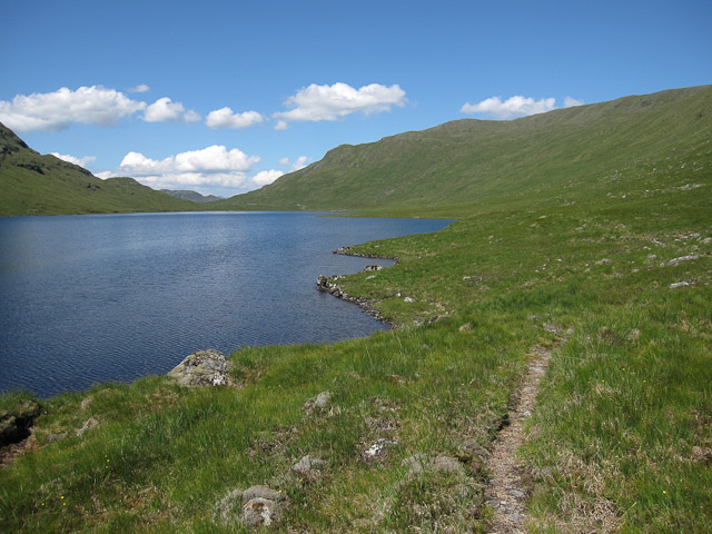 Path along Loch Calavie Looking towards Sail Riabhach.